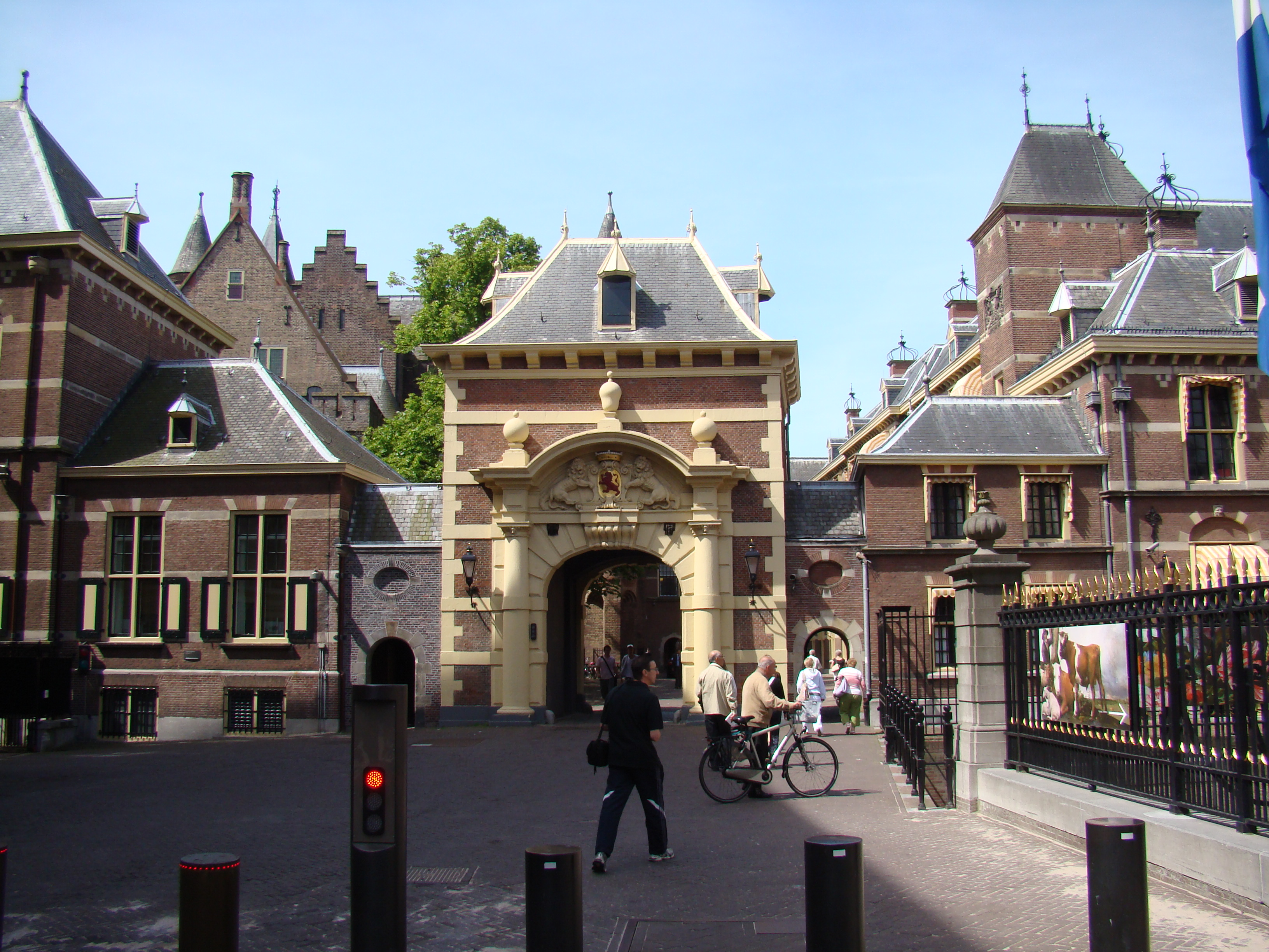 Gate to "Binnenhof" at The Hague